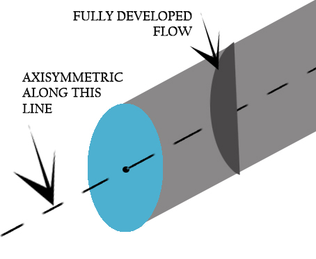 Showing asymmetric boundary condition